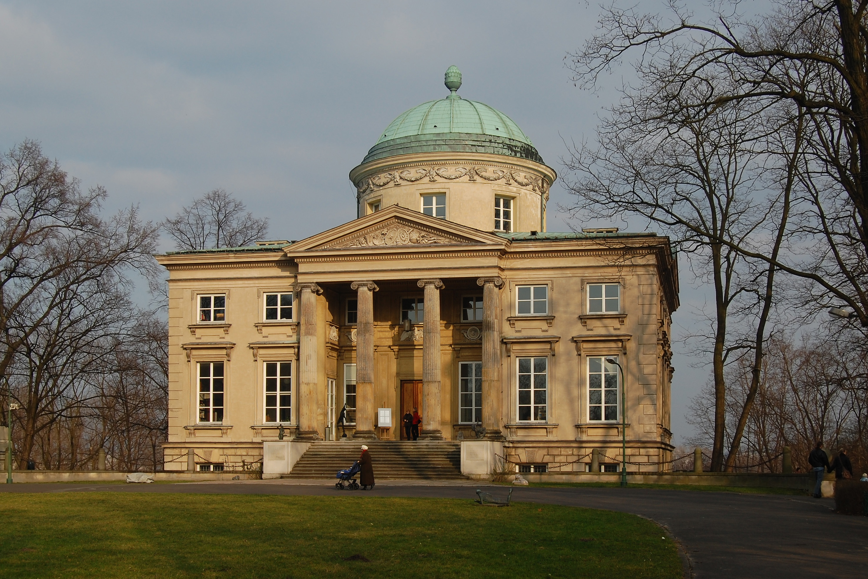 Królikarnia Palace, Warsaw, Poland.